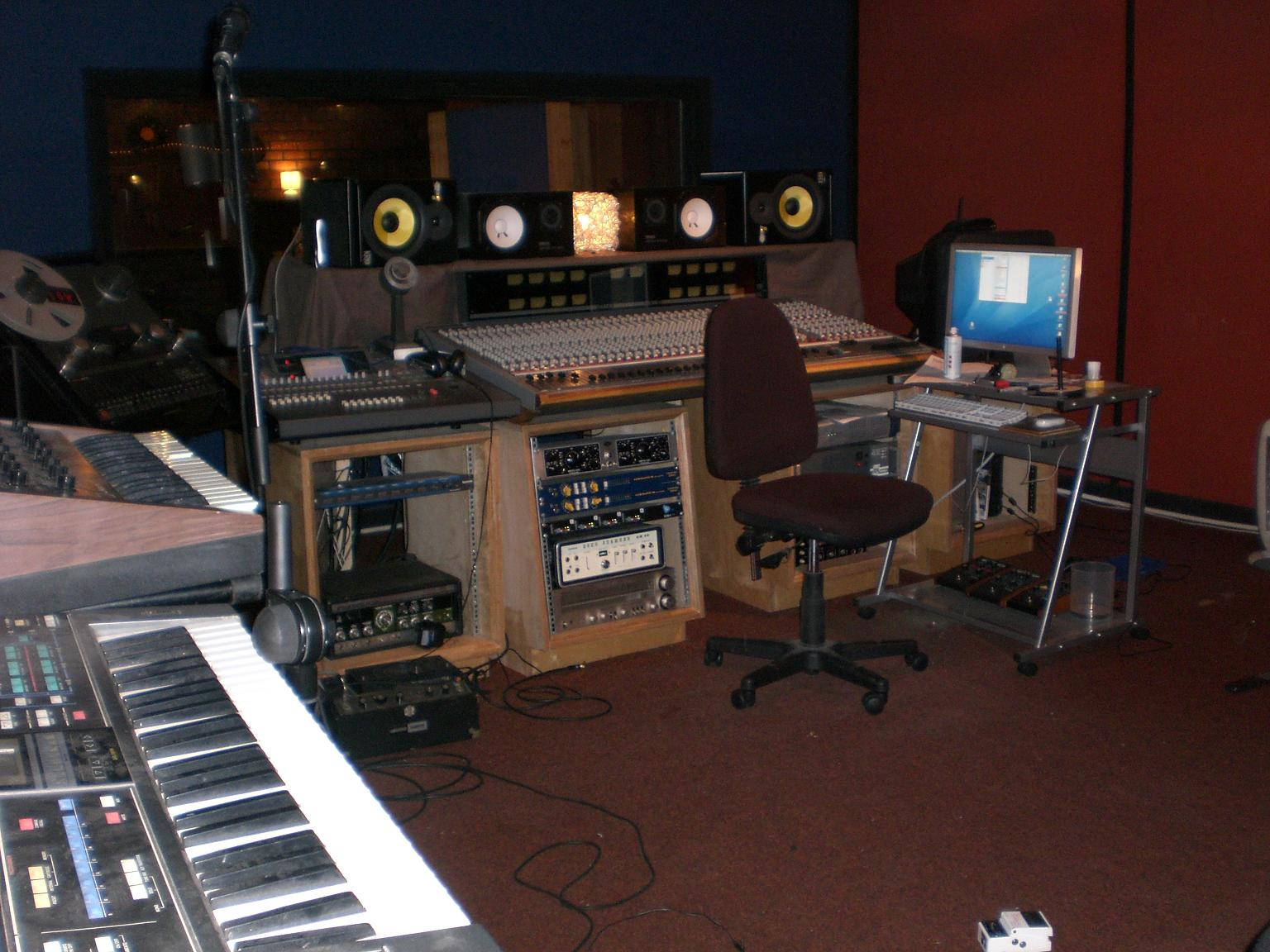 A band practice room at the centre.